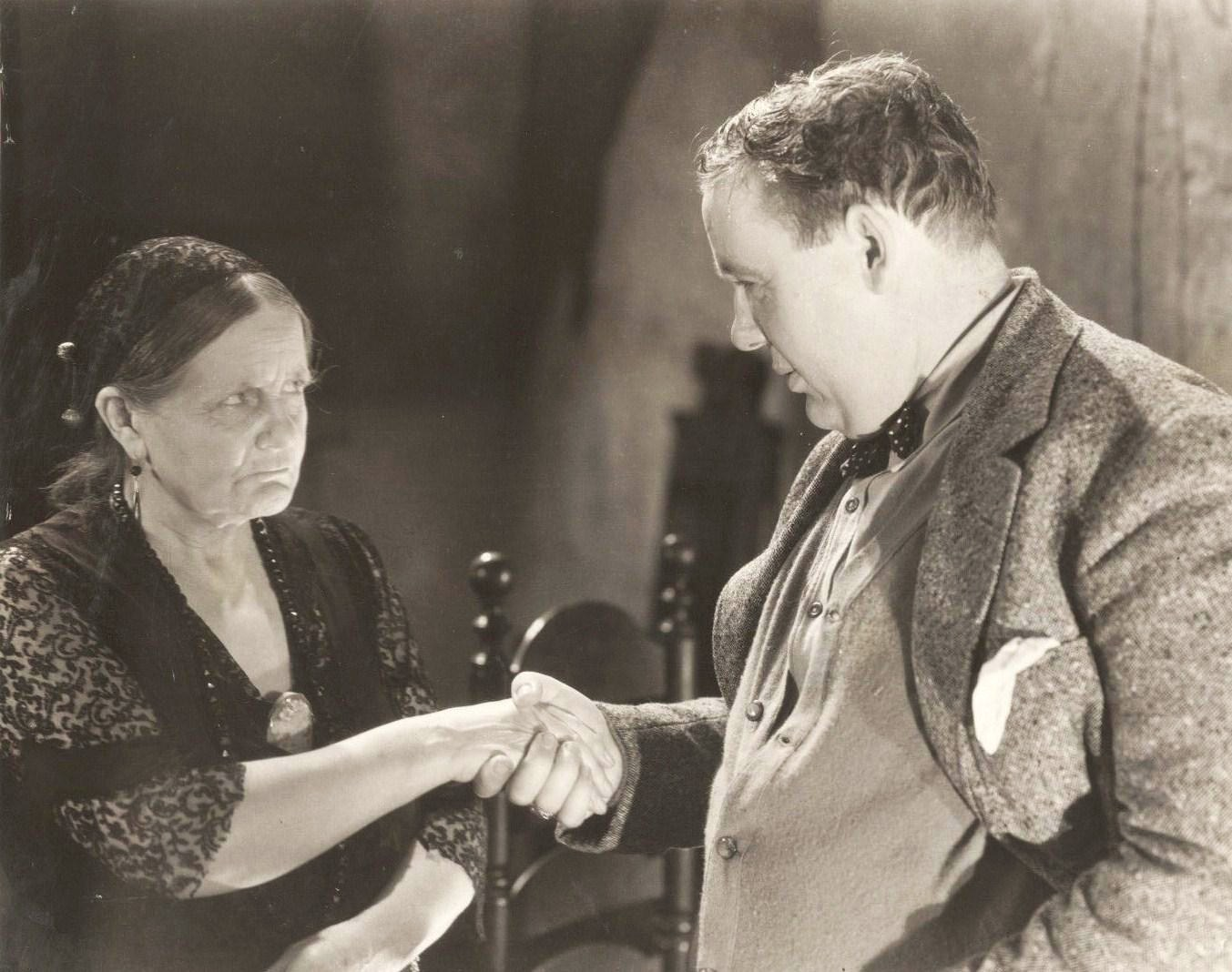 Eva Moore & Charles Laughton in The Old Dark House - publicity still (damaged, modified and cropped)